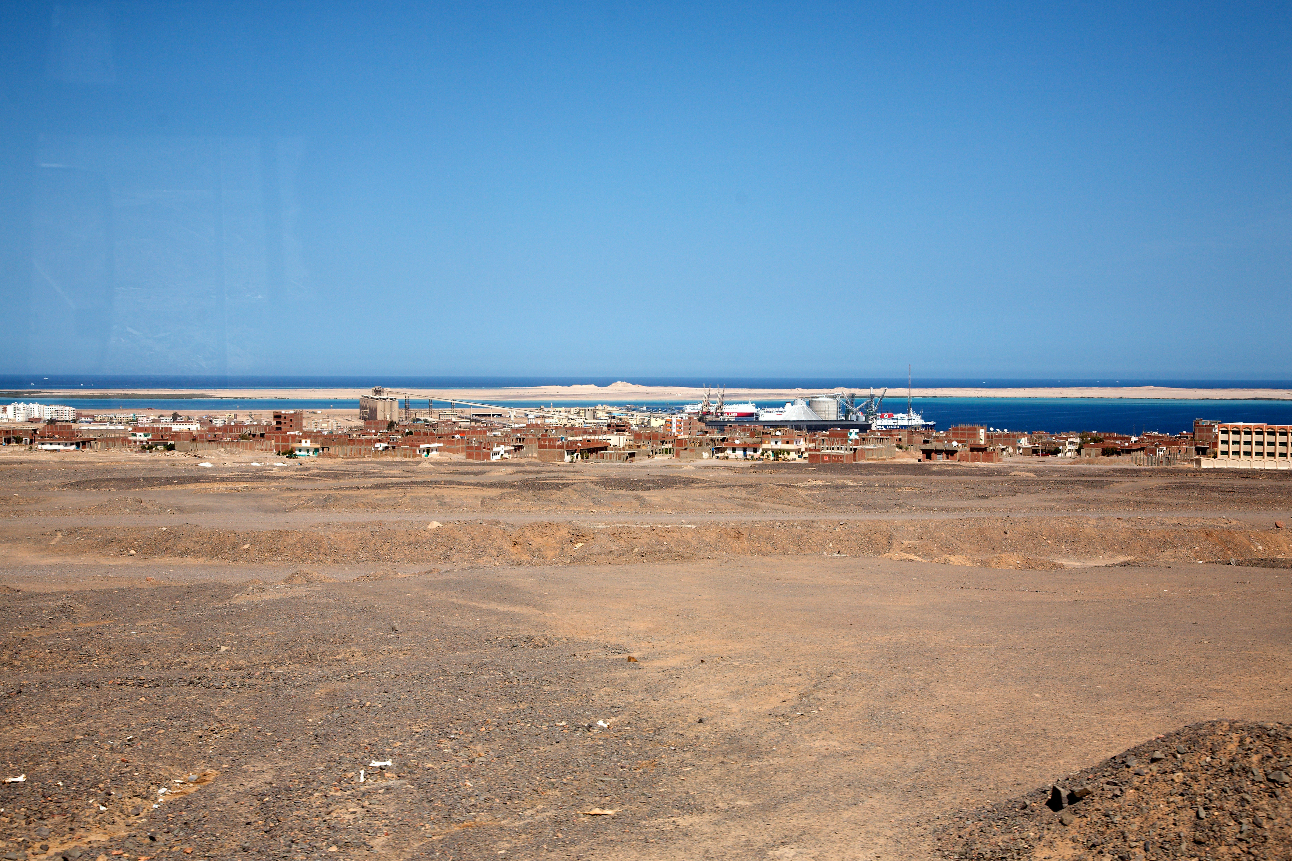 Port Safaga